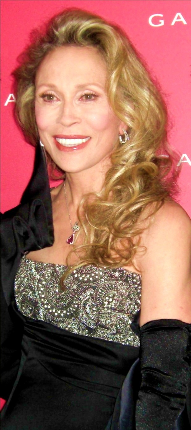 Faye Dunaway at Fashion for Relief 2007 depicted person: Faye Dunaway (age: 66.68)